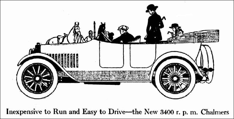 A 1916 Chalmers-Detroit advertisement - Price $1,050